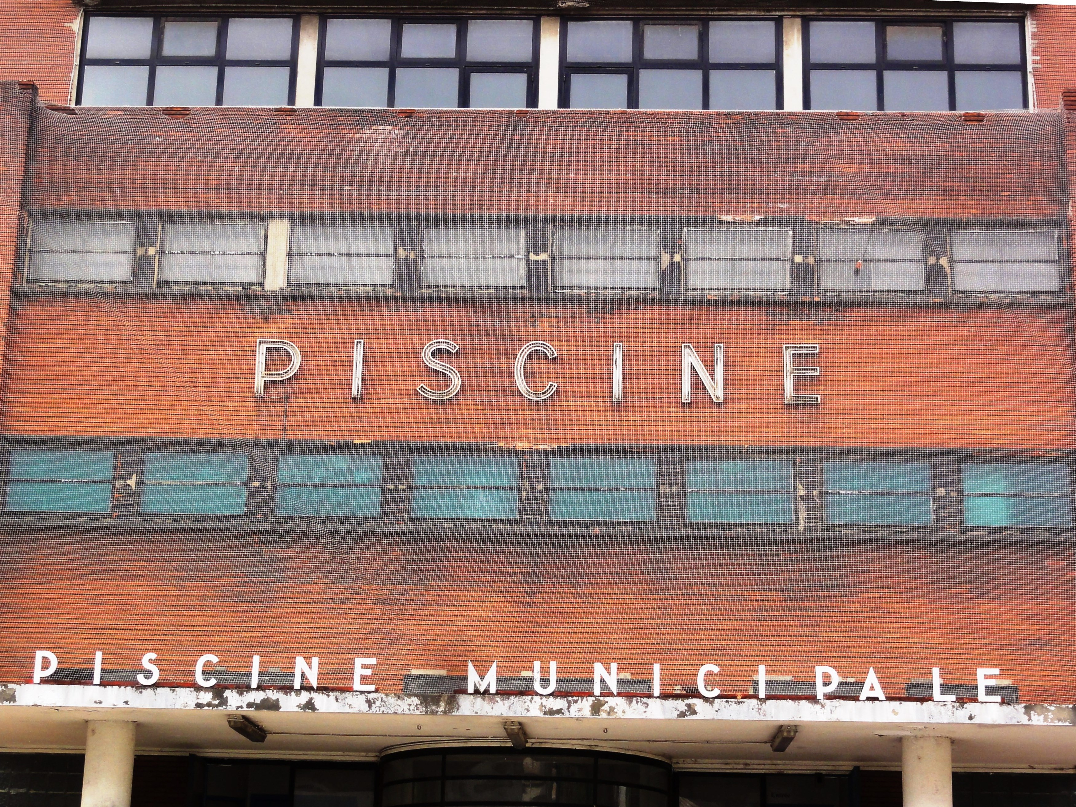 Pantin, texte sur façade piscine municipale PA93000006